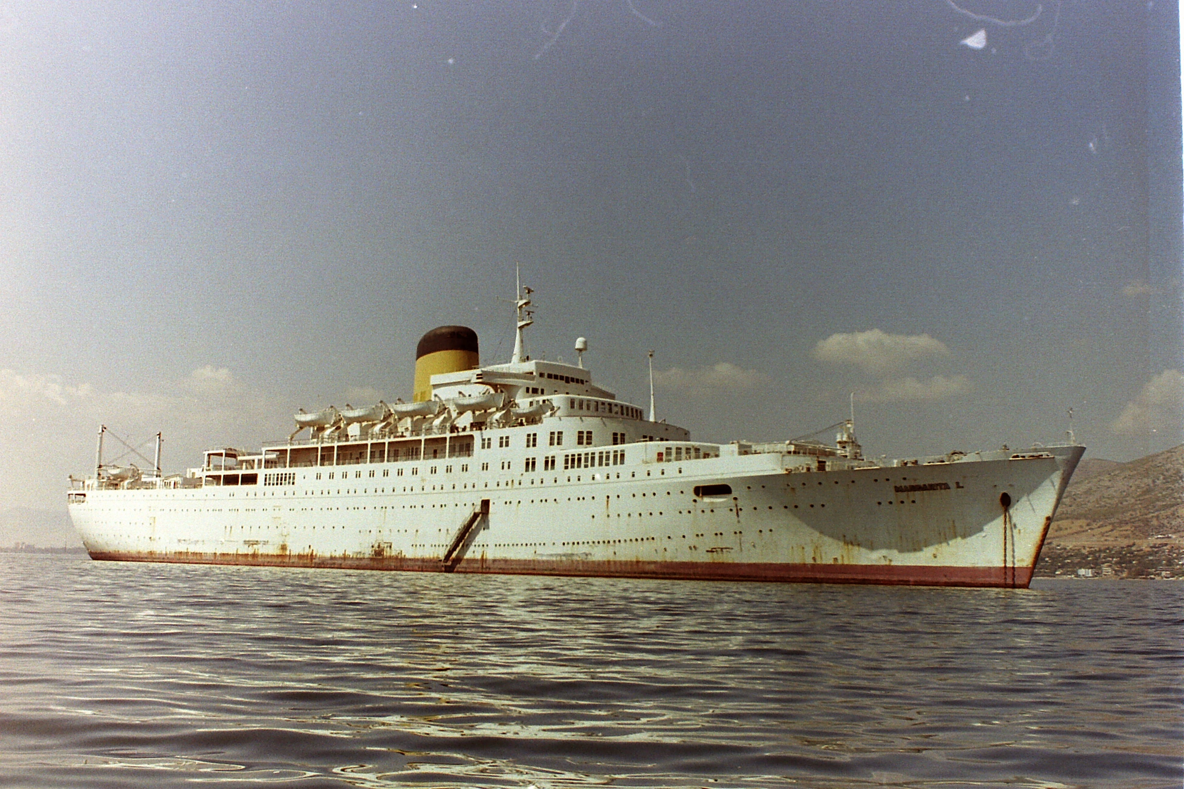 The cruise ship Margarita L. laid up in Eleusis Bay in 2002.